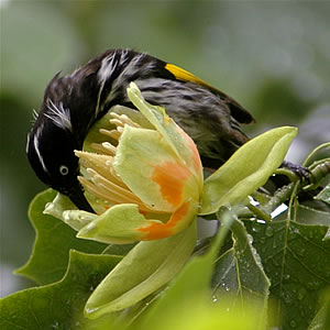 Bird, New Holland Honeyeater, Phylidonyris novaehollandiae.